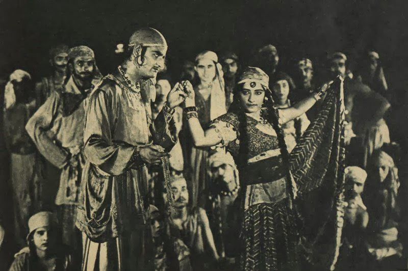 Image from 1935 Hindi film Karwan-E-Hayat.